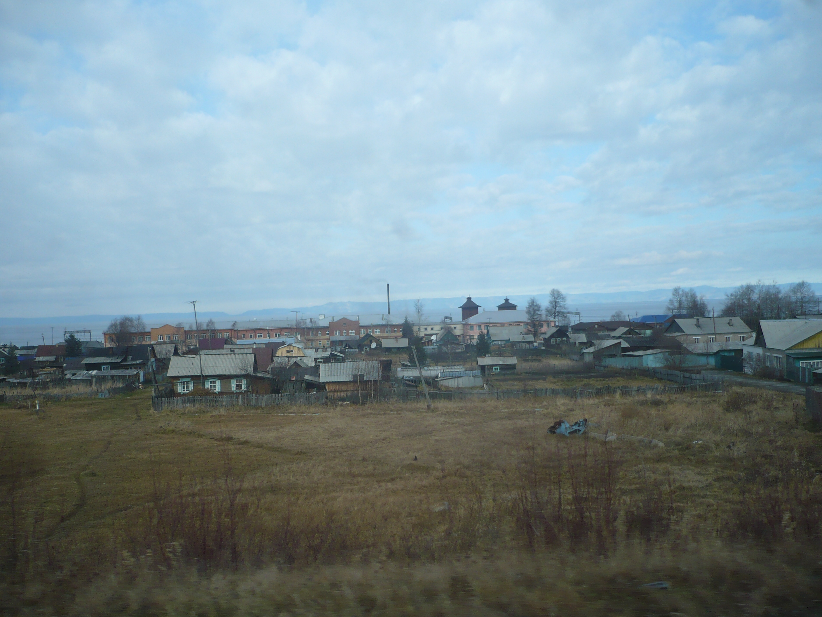 Village Tankhoy. View from the M55 motorway.